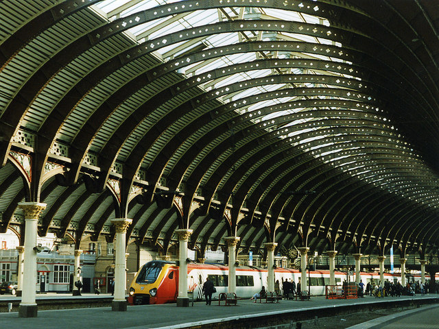 Voyager at York A Class 220 Virgin Voyager waiting to depart for Newcastle beneath the magnificent roof at York Station.